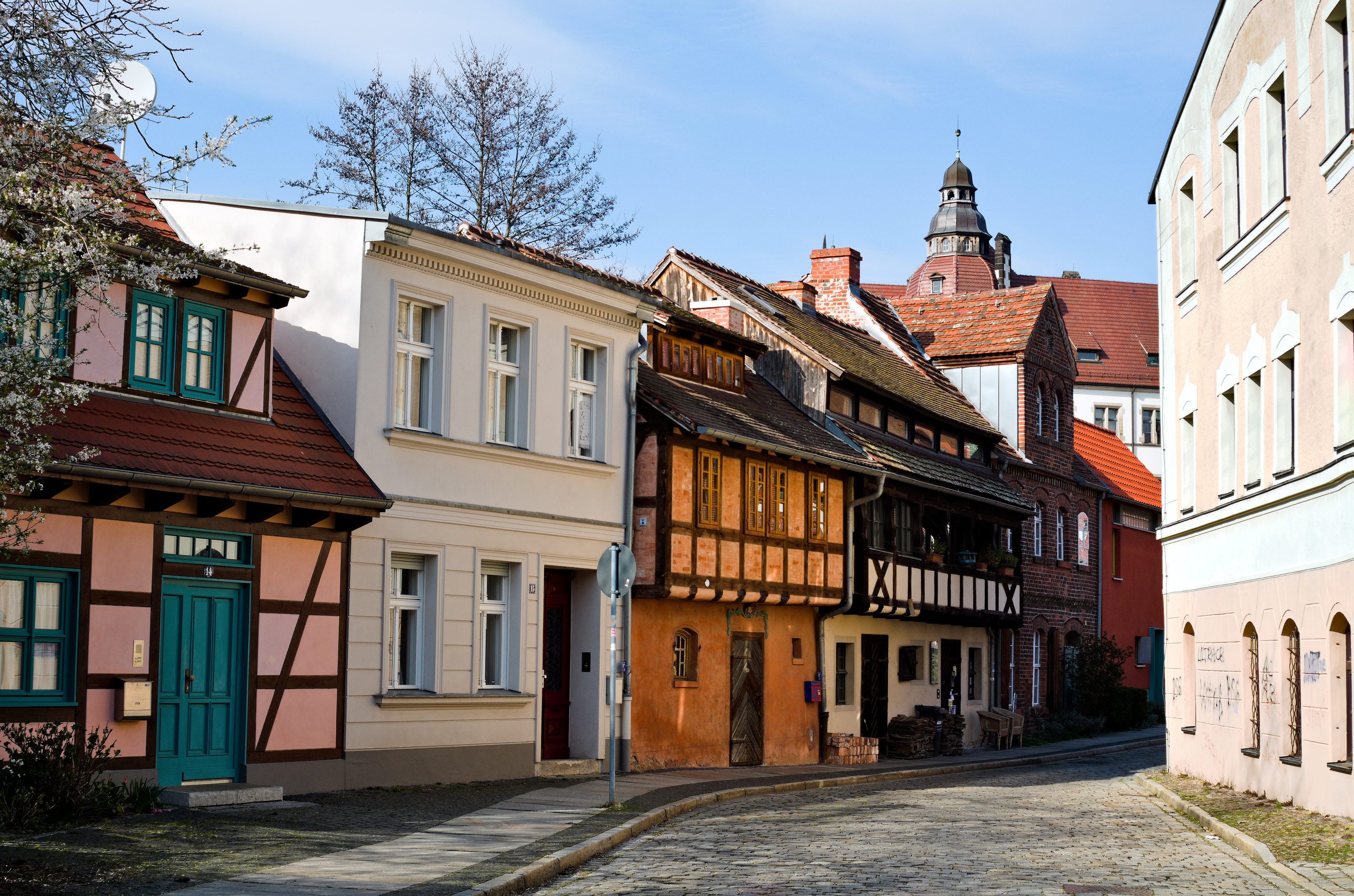 Cultural heritage monument Gerberhäuser, Uferstraße 14-17 in Cottbus-Mitte.